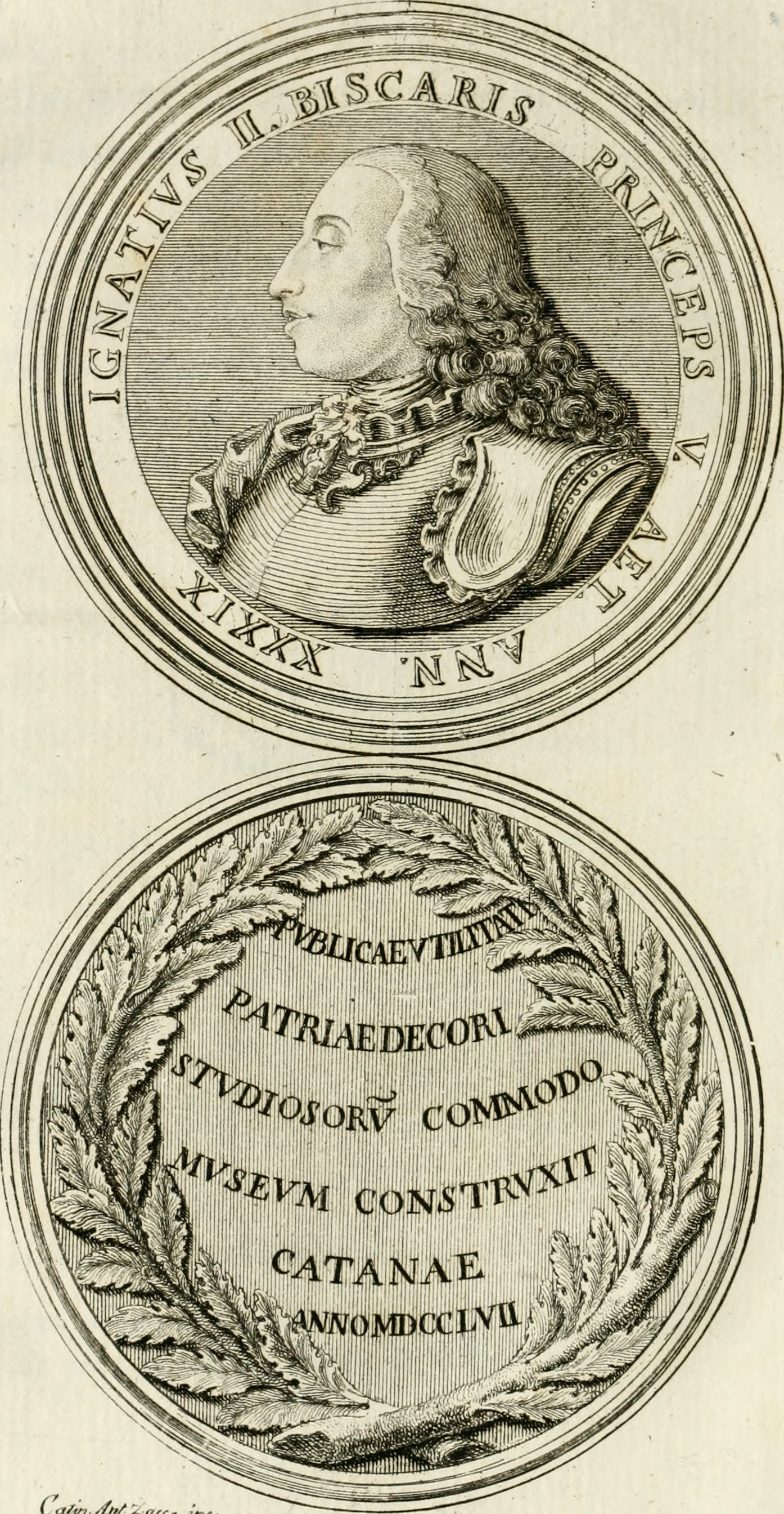 Title: Descrizione del museo d'antiquaria e del gabinetto d'istoria naturale del signor principe di Biscari Year: 1787 (1780s) Authors: Sestini, Domenico, 1750-1832 Zacco, Antonio, 18th cent Subjects: Paternò Castello, Ignazio, principe di Biscari, 1719-1786 Paternò Castello, Ignazio, principe di Biscari, 1719-1786 Classical antiquities Natural history Publisher: Livorno : Per Carlo Giorgi ... Text Appearing Before Image: consacrate furono alla Real Maestà di Carlo Sebastiano Bofbone Re delle du€ Sicilie j oggi Ré delle Spagne * Text Appearing After Image: t a/tn/fn^/. f DESCRIZIONE DEL MUSEO D A N T I Q, U A R I A. NON vi pigliate a sdegno, o mio grande Ami*„ co, se io giunco qua non ho soddisfai-„ to subito alle vostre brame con darvi contezza,, di ciò , che volevate sapere „ scrisse già il chia-rissimo Montfaucon al nostro Anton Maria Salvi-ni splendore della Repubblica Letteraria, allorché tor-nato quegli da Firenze a Parigi, non gli era riusci-to di scrivergli prima, per essere stato cirjondatoda varie occupazioni, e negozj. Simil frase duopo mi è usare con voi, se pri-ma dora non ho dato qualche esecuzione alle pre-murose istanze fattemi di avere una dettagliata De-scrizione del nobile, e ricco Museo d Antiquaria, edel Gabinetto d Istoria Naturale di S. E. il SignorPrincipe di Biscari esistente nella illustre Città diCatania in Sicilia, non da negozi, ed affari dimpor-tanza trattenuto , ma solo dal trovarmi in certa ma-niera occupato finora nell illustrare varj pezzi dan- A tichìtà, che nel medesimo Museo conservansi.